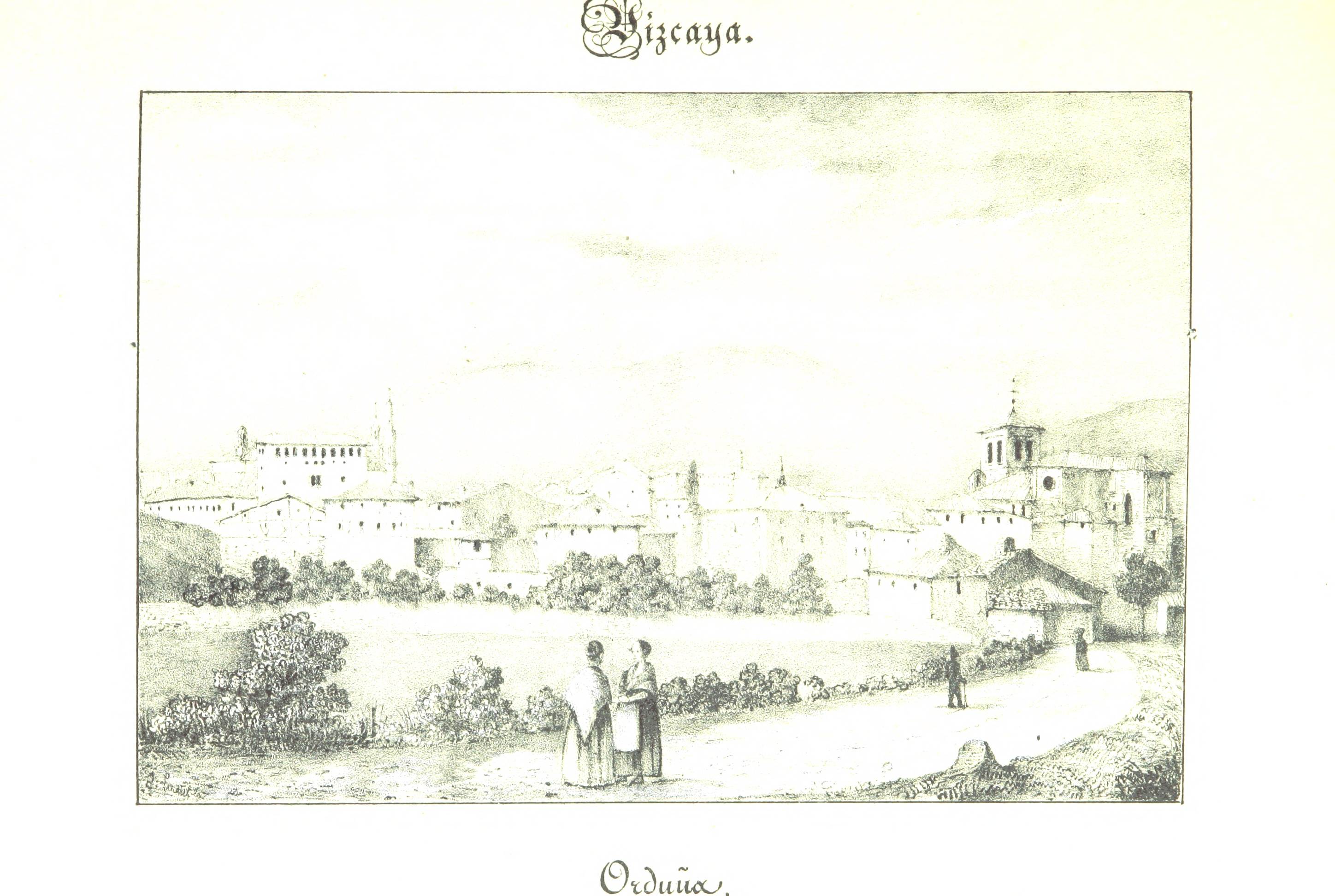 Image taken from: Title: "Revista pintoresca de las provincias Bascongadas. Edicion de lujo. Adornada con vistas ... por S. Lambla. Escrita por L. M. de E. y A. A. y H. Entrega 1-45" Author: E., L. M. de - and A. y H. (A.) Contributor: A. y H., A. Contributor: LAMBLA, Julio. Shelfmark: "British Library HMNTS 10161.f.16." Page: 391 Place of Publishing: Bilbao Date of Publishing: 1844 Issuance: monographic Identifier: 001024664 Explore: Find this item in the British Library catalogue, 'Explore'. Download the PDF for this book (volume: 0) Image found on book scan 391 (NB not necessarily a page number) Download the OCR-derived text for this volume: (plain text) or (json) Click here to see all the illustrations in this book and click here to browse other illustrations published in books in the same year. Order a higher quality version from here.